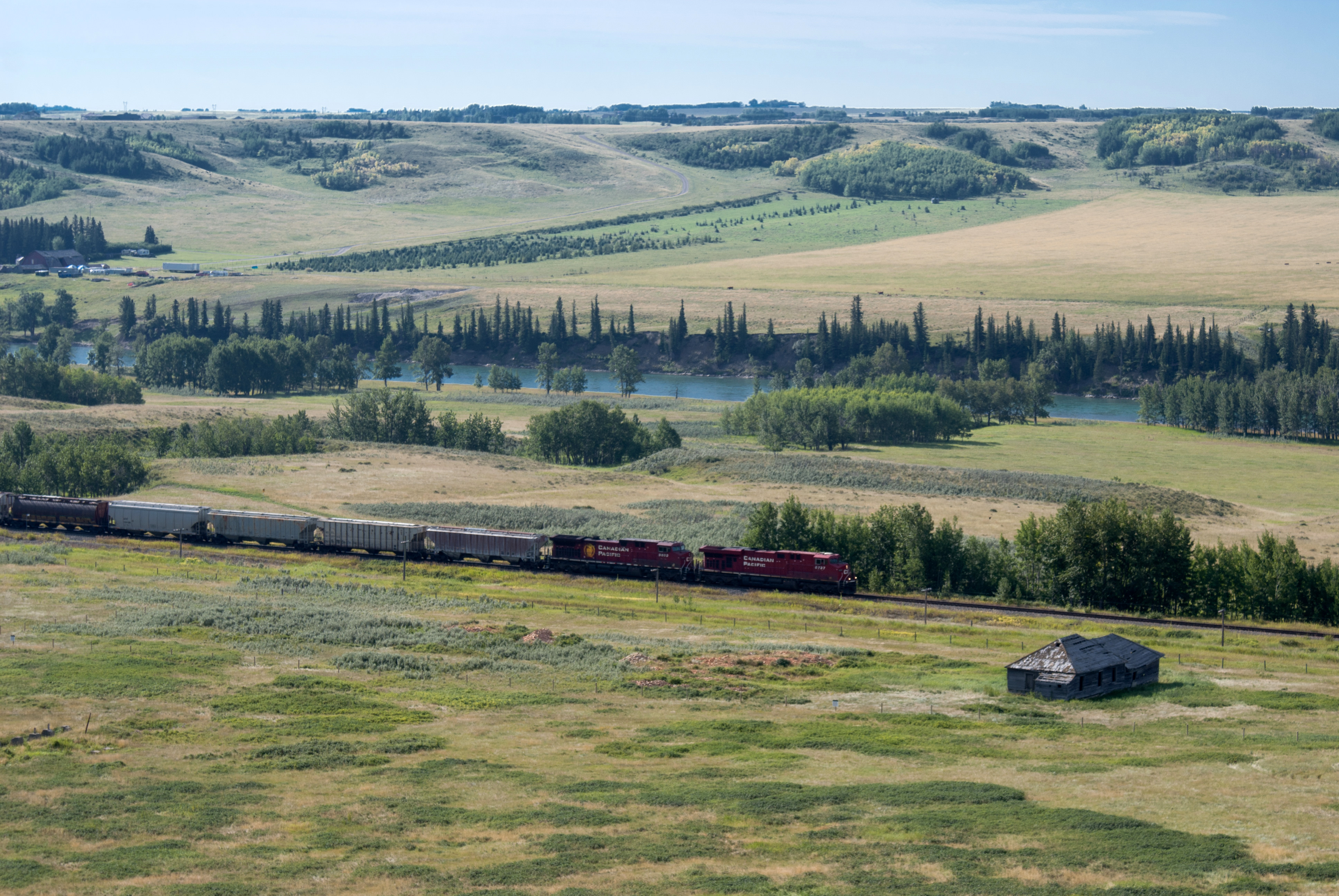 Glenbow store from lookout